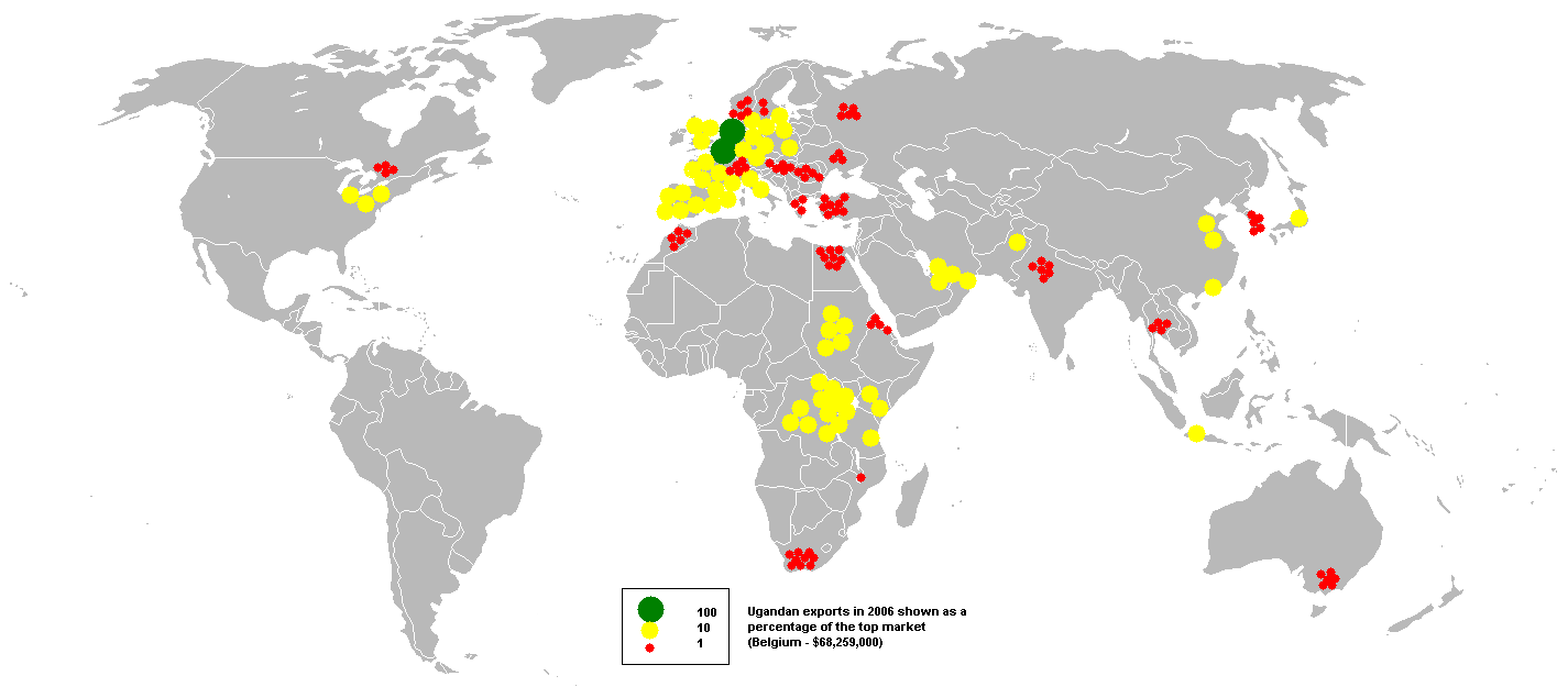 This bubble map shows the global distribution of Ugandan exports in 2006 as a percentage of the top market (Belgium - $68,259,000). This map is consistent with incomplete set of data too as long as the top producer is known. It resolves the accessibility issues faced by colour-coded maps that may not be properly rendered in old computer screens. Data was extracted on 28th September 2007 from Based on :Image:BlankMap-World.png